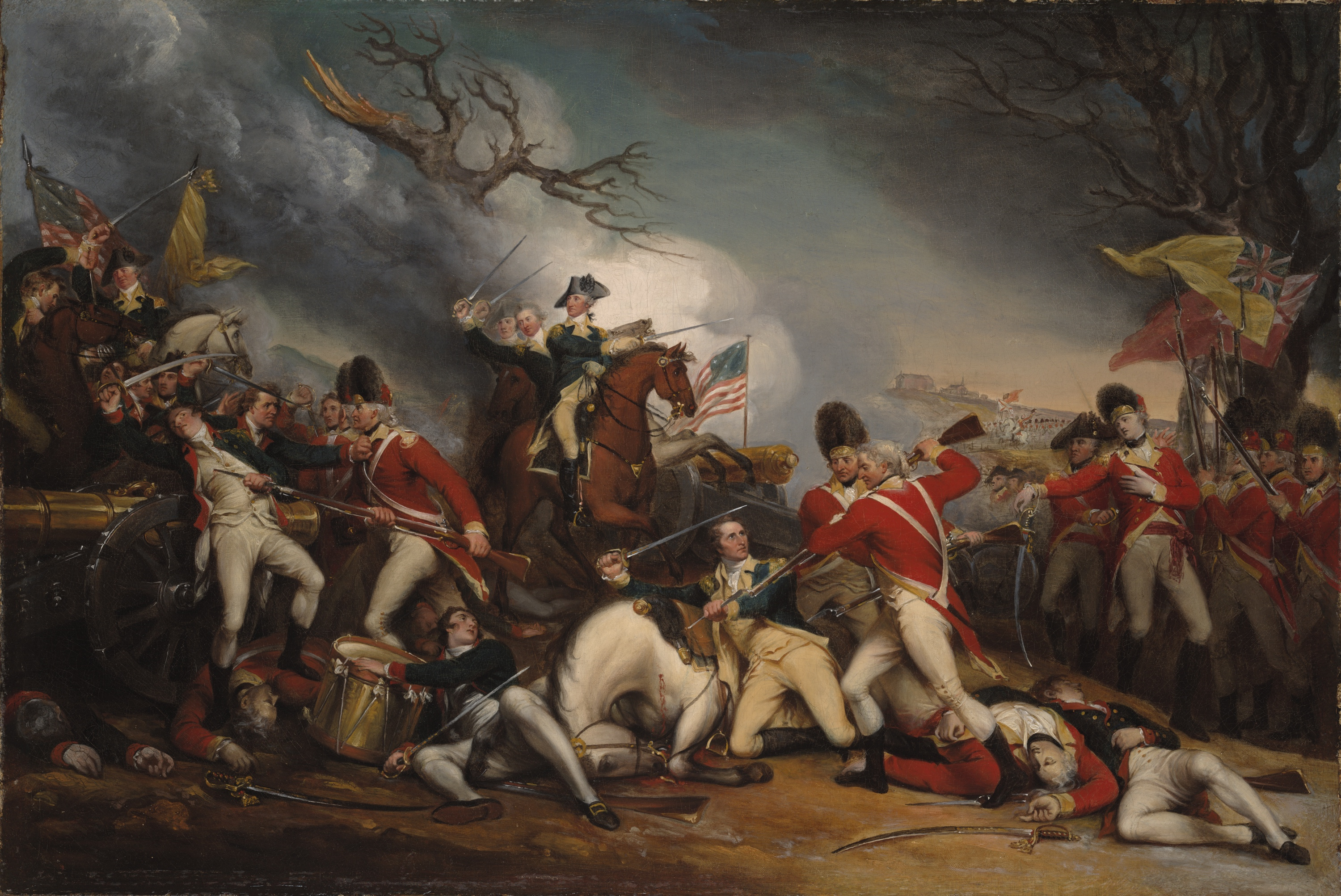 The Death of General Mercer at the Battle of Princeton, January 3, 1777 displays several events at the Battle of Princeton. At the center, American General Hugh Mercer, with his horse beneath him, is mortally wounded. At the left, American Daniel Neil is bayoneted against a cannon. At the right, British Captain William Leslie is shown mortally wounded. In the background, American General George Washington and Doctor Benjamin Rush enter the scene.